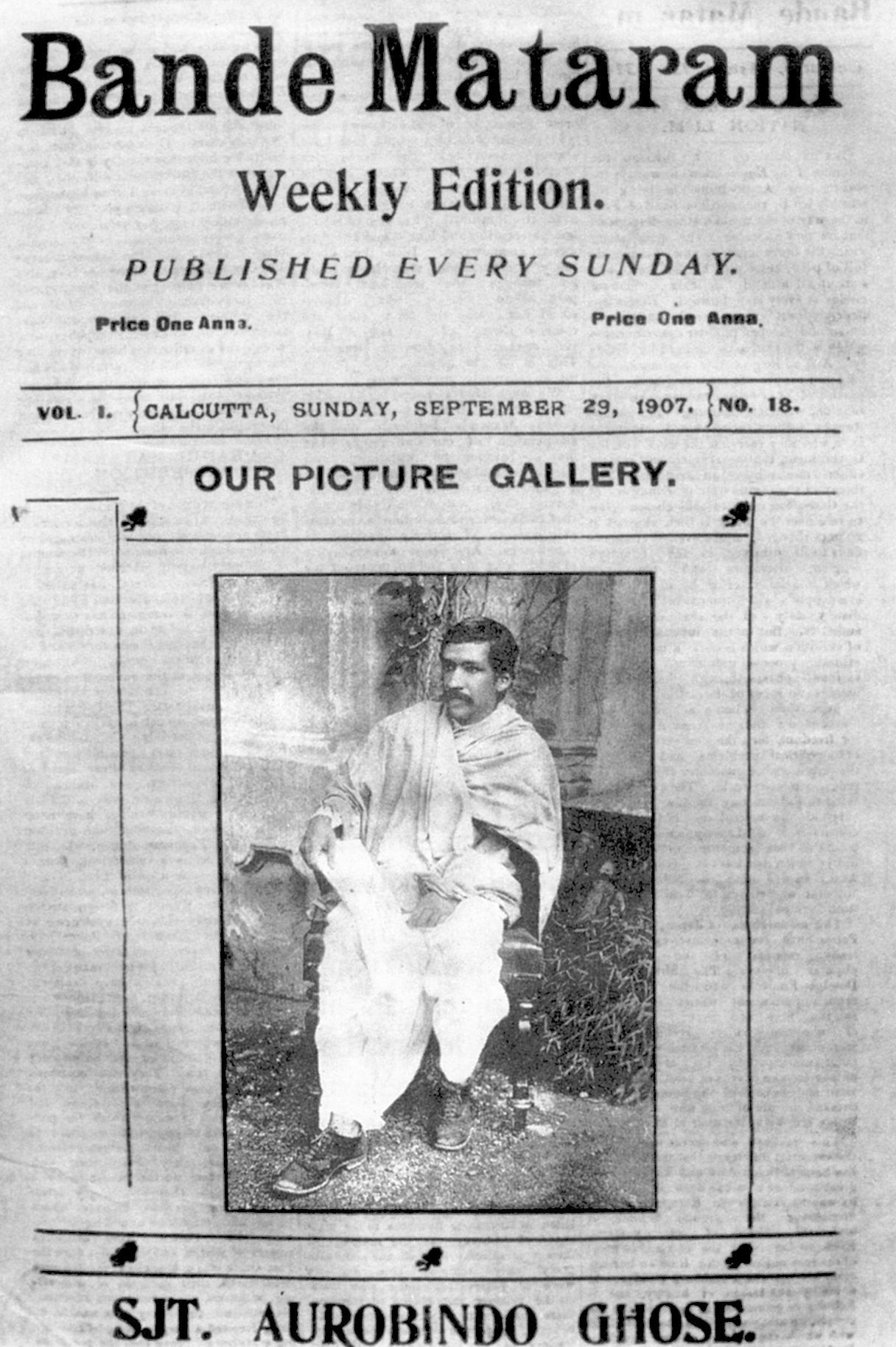 Photo of expired new print.